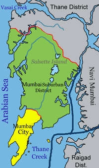 Original file: Corrected Mumbai suburban districts, Navi Mumbai etc.